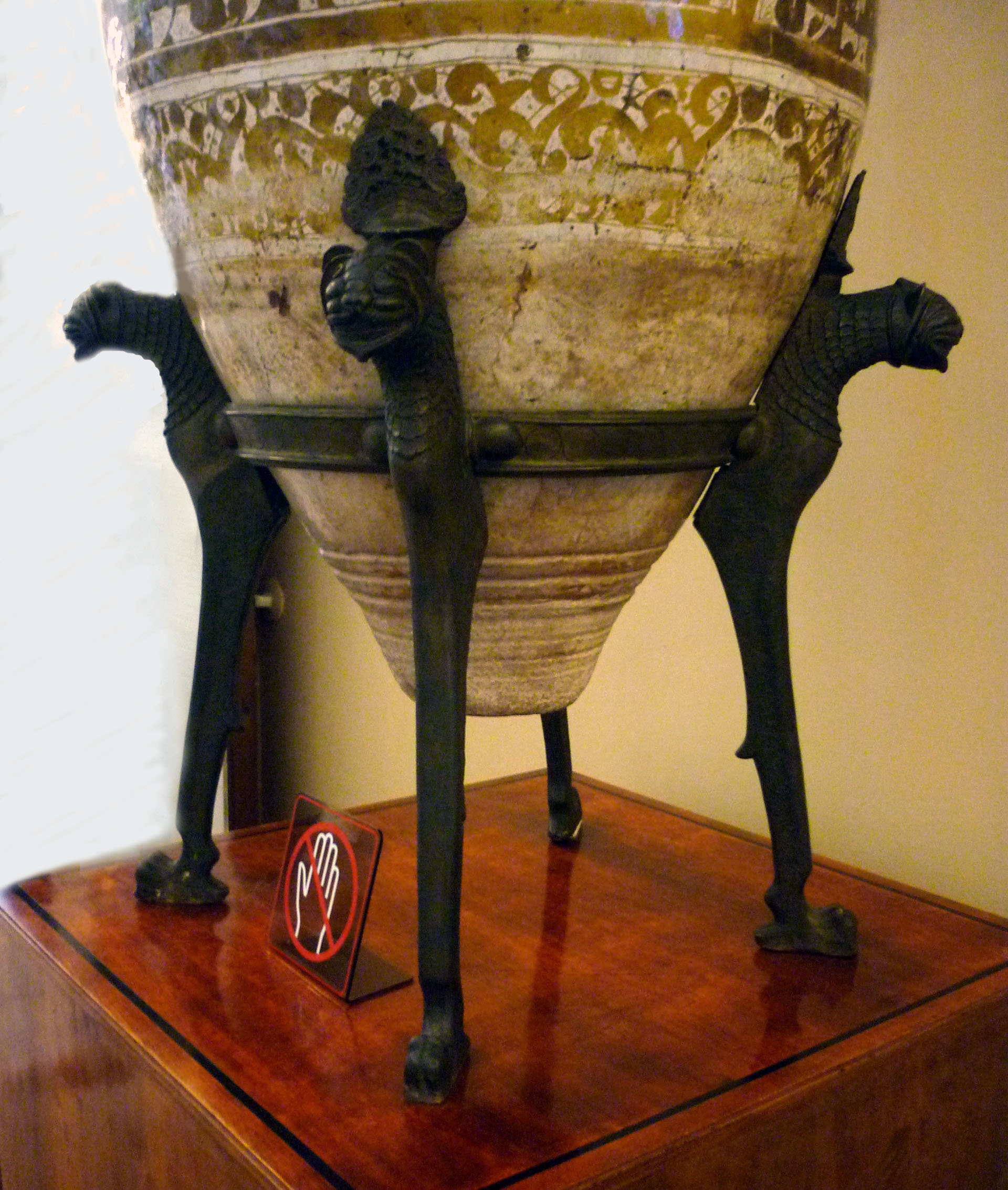 "Glass of Fortuny". Hispano-Moorish pottery with metallic sheen from Málaga (Spain). Fourteenth century. Hermitage Museum, St. Petersburg (Russia). The iron bracket was designed by the Spanish painter Mariano Fortuny.